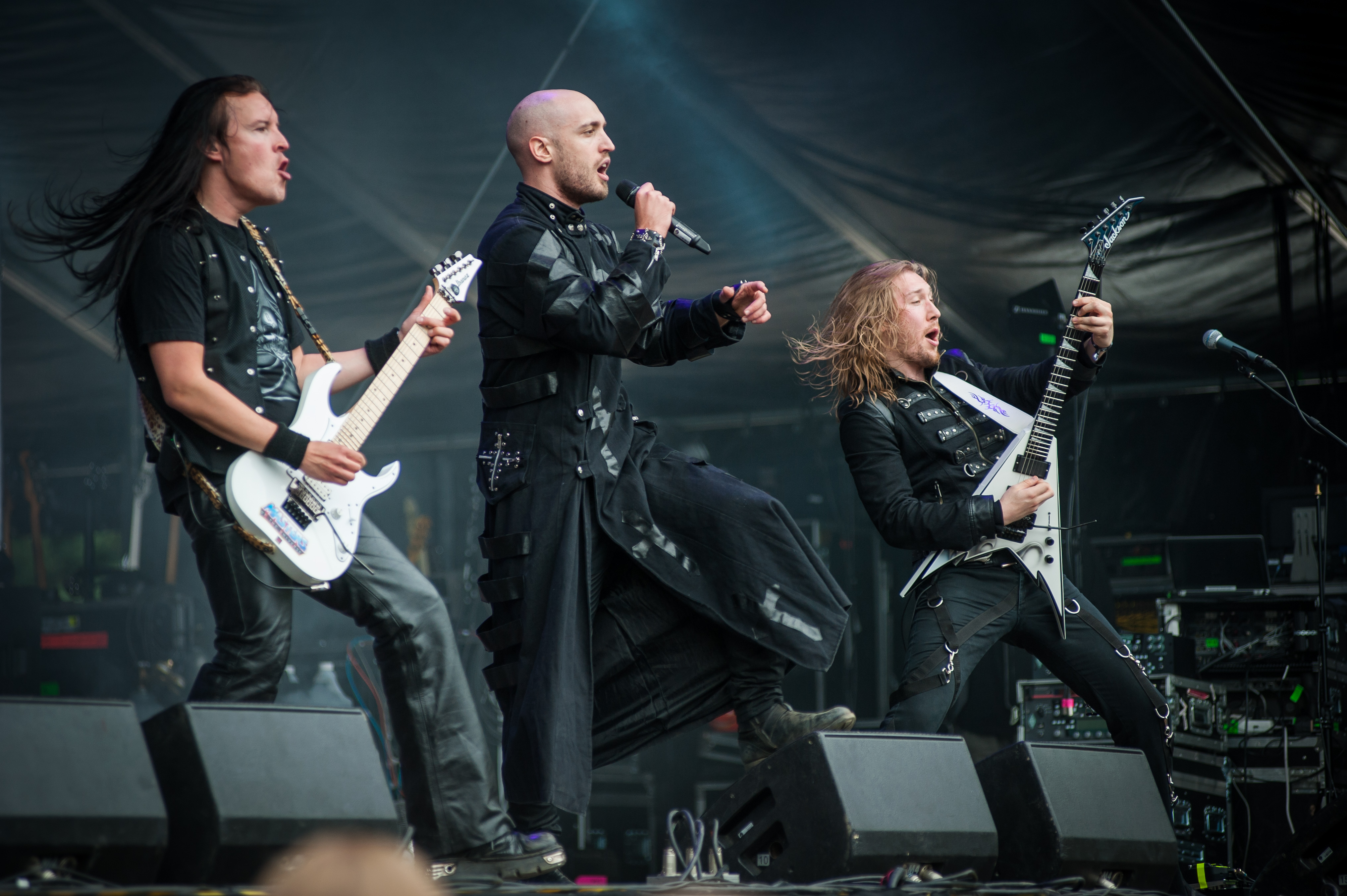 Finnish power metal band Beast In Black performing at the 2018 South Park festival in Tampere, Finland.